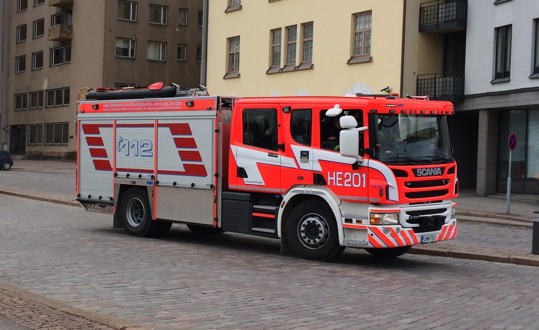 Helsinki City Fire Brigade, fire engine HE201 (new numbering system) in Helsinki, Finland.